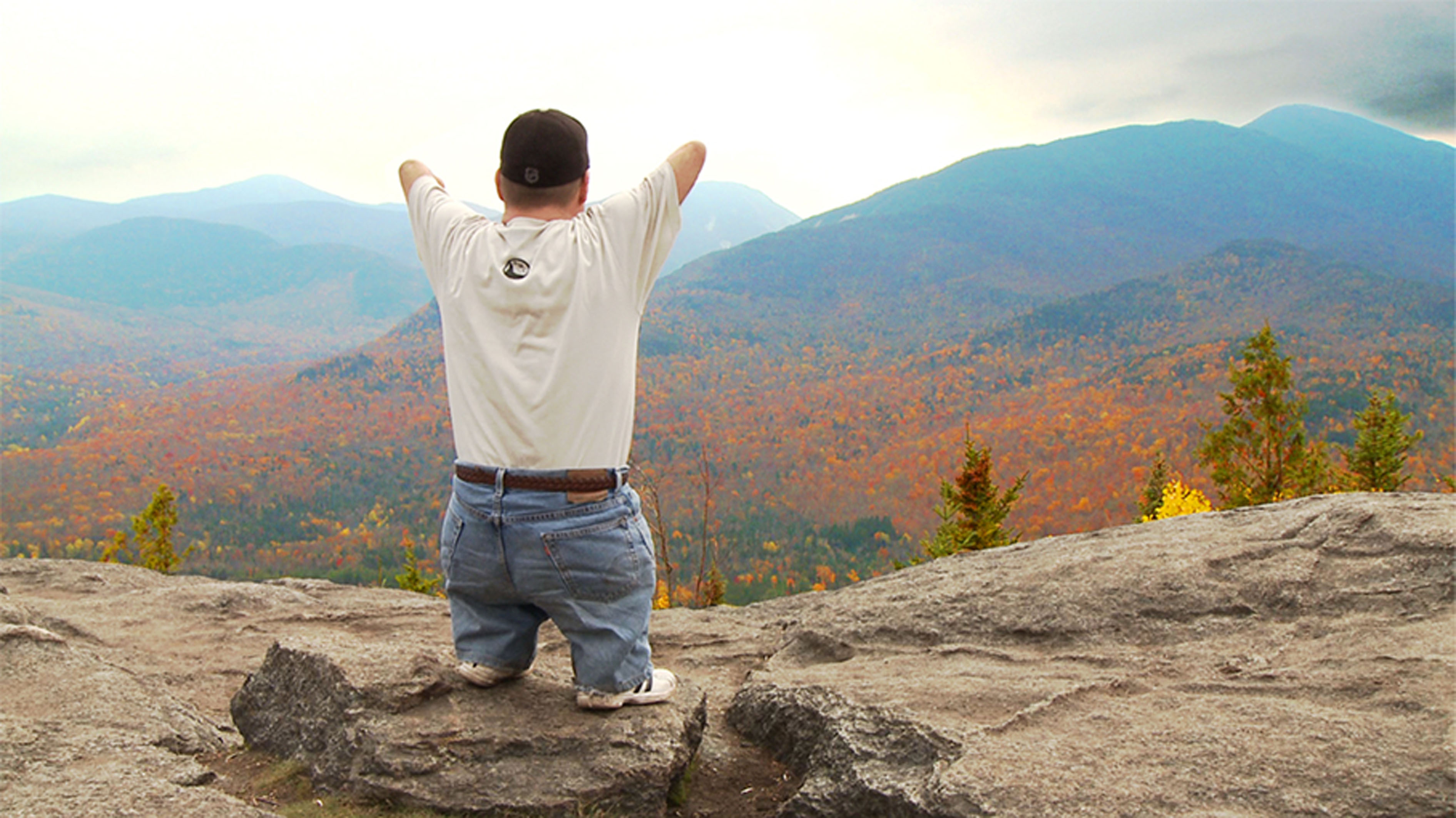 John Robinson on Mountaim